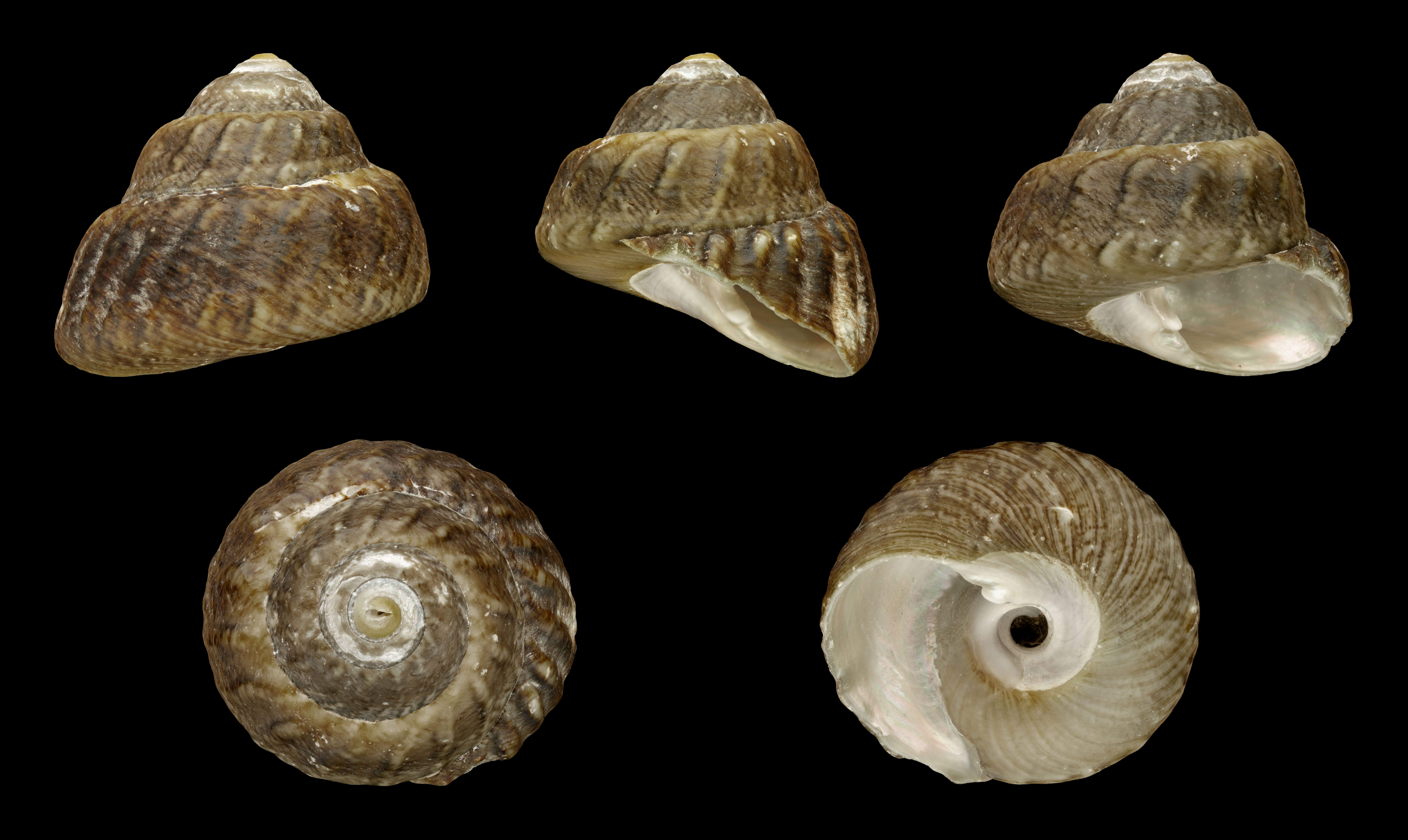 Diameter 3.2 cm; Originating from Japan; Shell of own collection, therefore not geocoded.